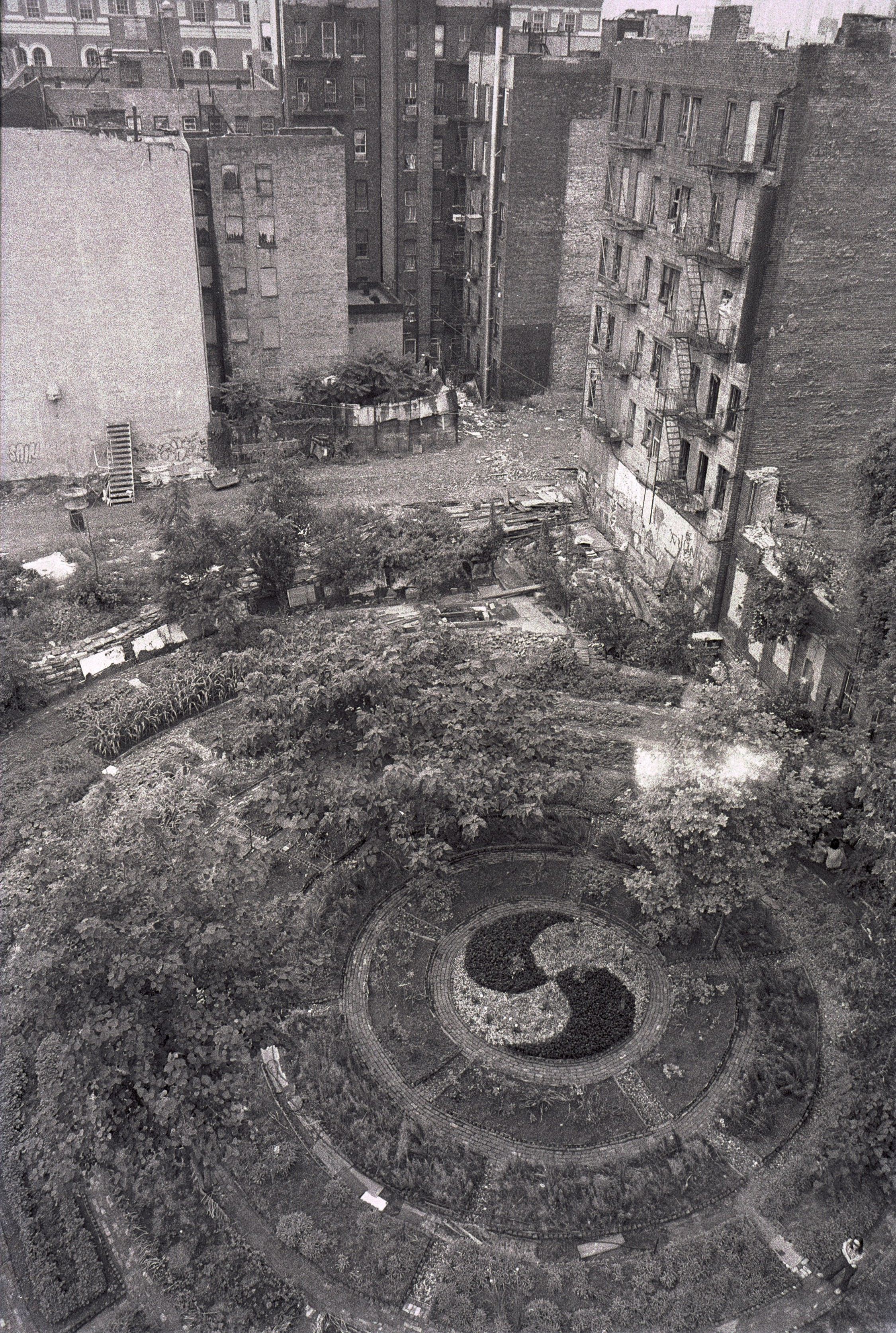 Above view of Adam Purple's "Urban Garden" on the Lower East Side of New York City in 1984. Note the buildings surrounding garden.